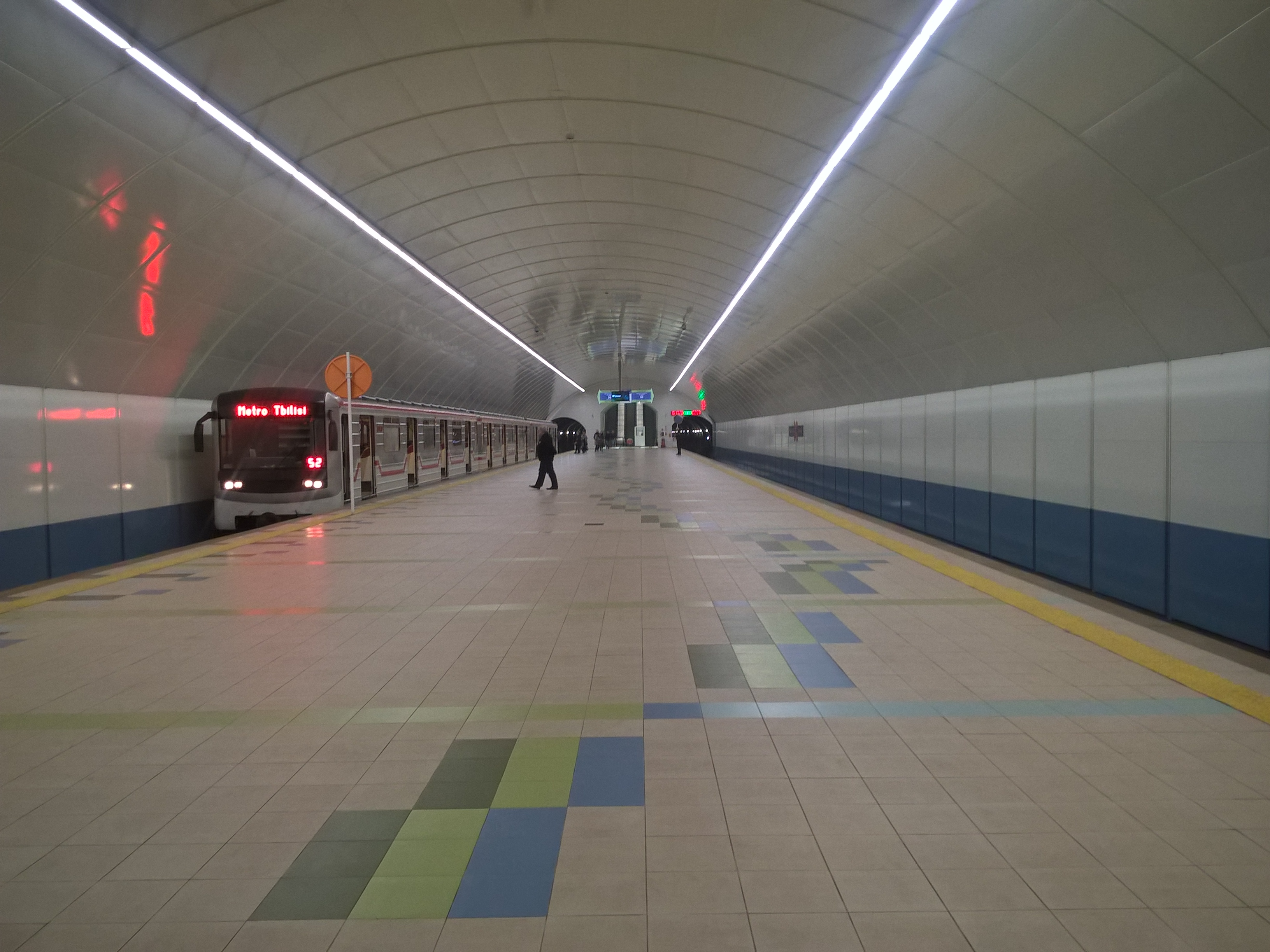 Tbilisi State University Subway Station